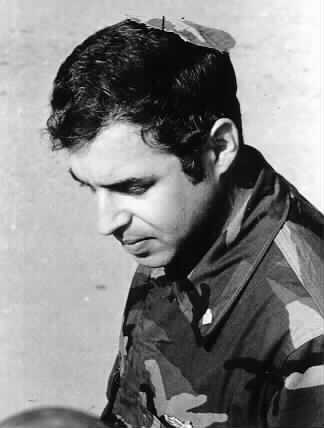 Beirut 1983 Rabbi Arnold E. Resnicoff, Chaplain, United States Navy. Resnicoff is wearing a temporary kippa (skullcap) made for him by Catholic Chaplain George Pucciarelli, torn from a piece of Pucciarelli's uniform, when Resnicoff's kippa became bloodied after being used to wipe blood from the face of a wounded Marine in the wake of the 1983 Beirut barracks bombing.Reference: [1]